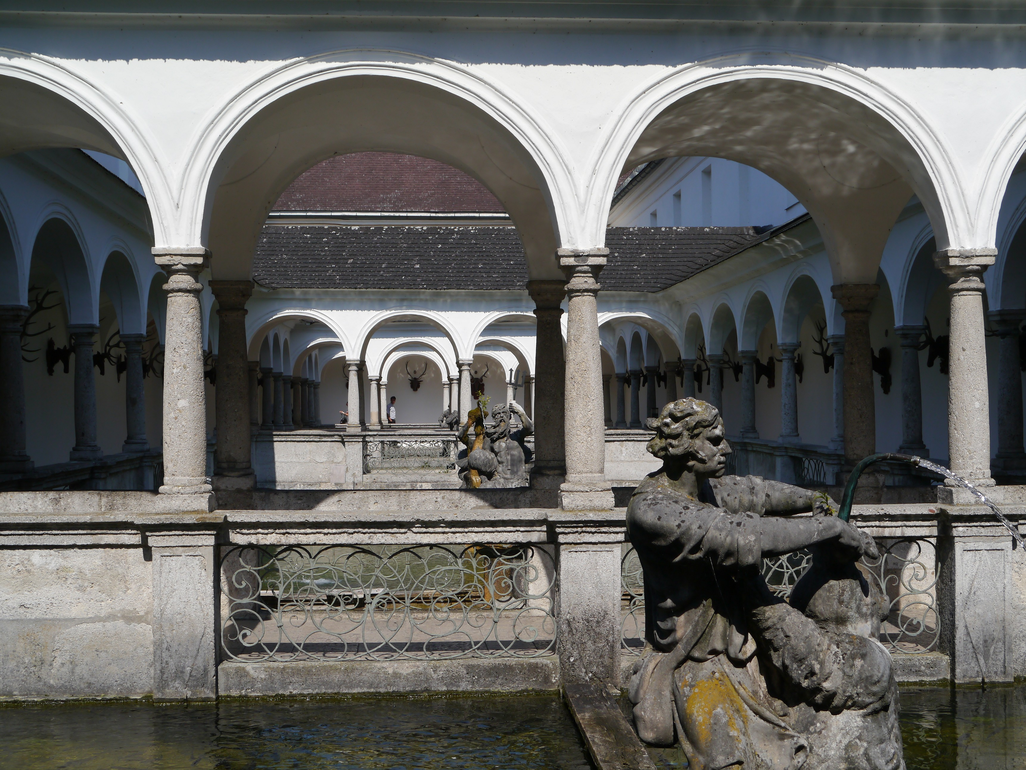 Fish tanks of Kremsmünster Abbey, Kremsmünster, Upper Austria